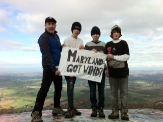 Three members of Maryland Boy Scout Troop 33 and CCAN Director Mike Tidwell on the highest peak on the Appalachian Trail in Maryland: Quirauk Mountain.